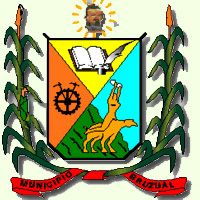 Bruzual Municipality shield (Yaracuy),Venezuela